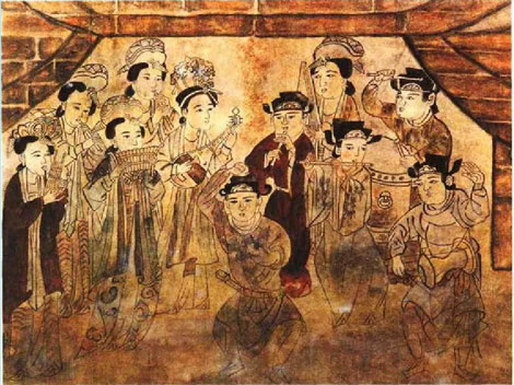 Mural from the Song Dynasty tomb of Zhao Daweng at Baisha in Yuxian, Henan, depicting a male dancer accompanied by musicians dated to 1099 AD